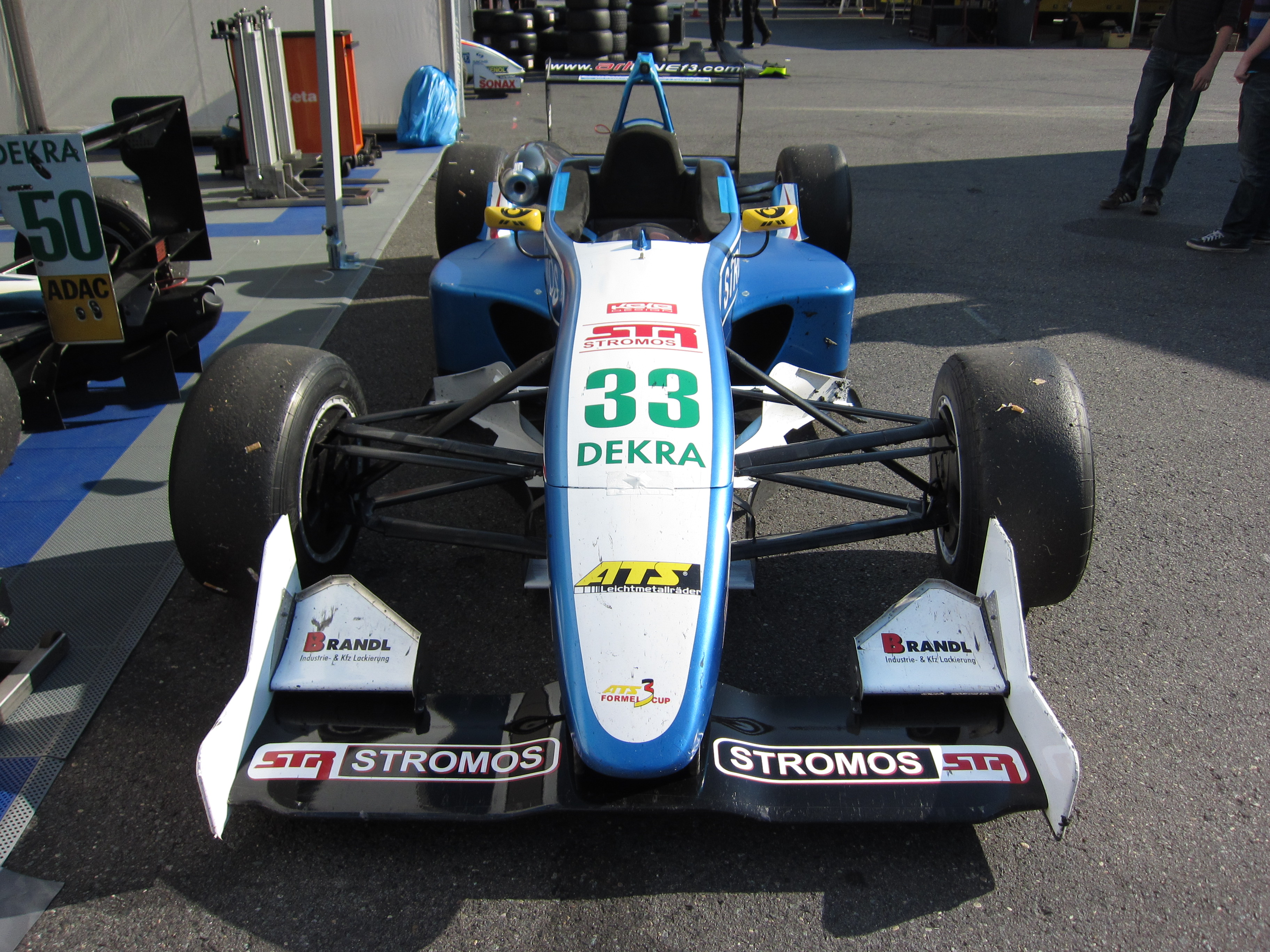 STROMOS Artline's Dallara F307 Formula 3 car (Antti Rammo, ATS Formula 3 Cup): the photo was taken during 2011's ADAC GT Masters race weekend at Hockenheim